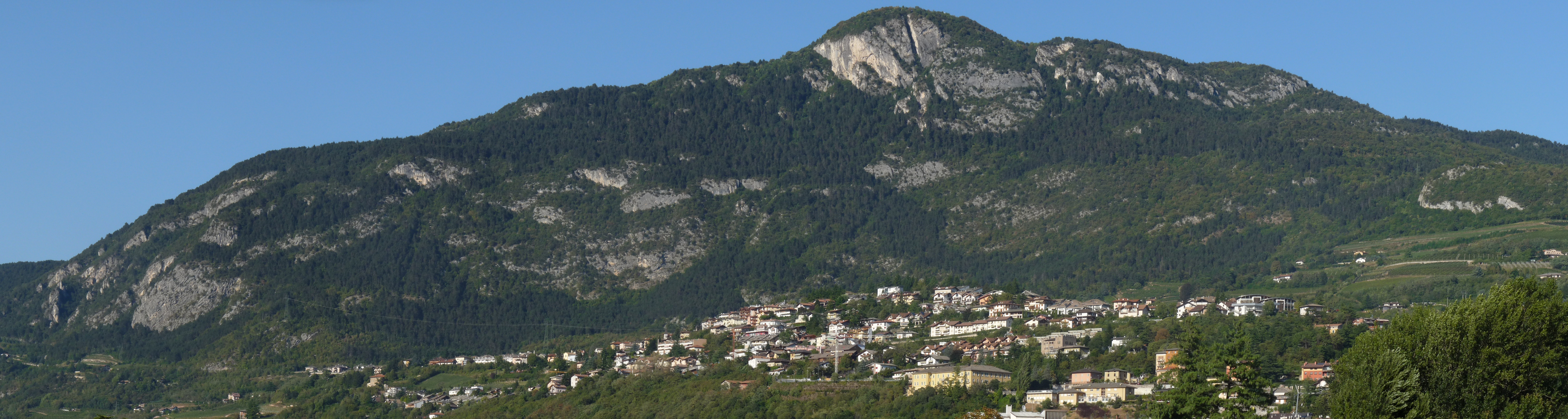 Trento (Italy): panorama of Martignano (a frazione of Trento) and the mount Calisio